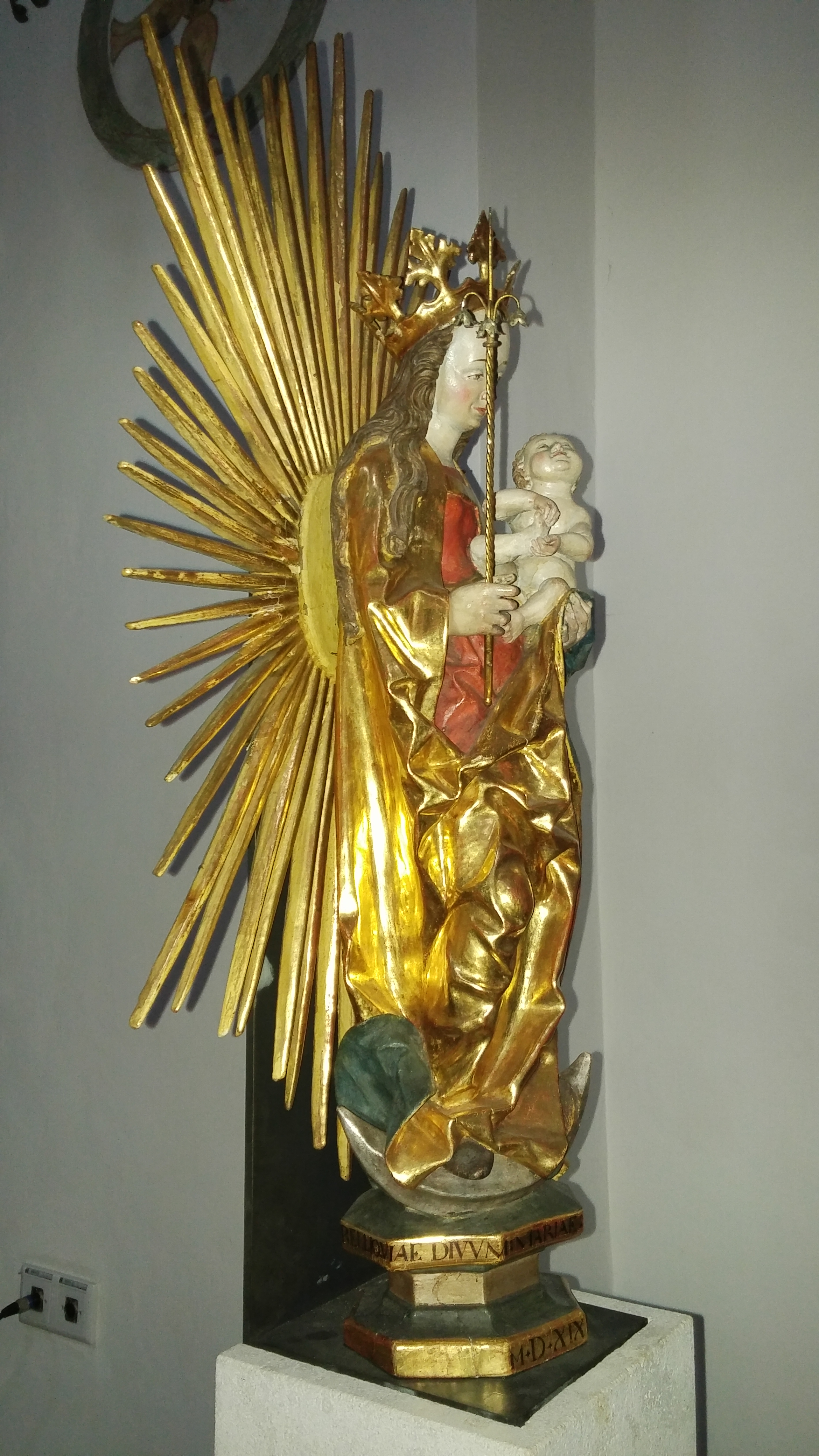 Spalter Madonna